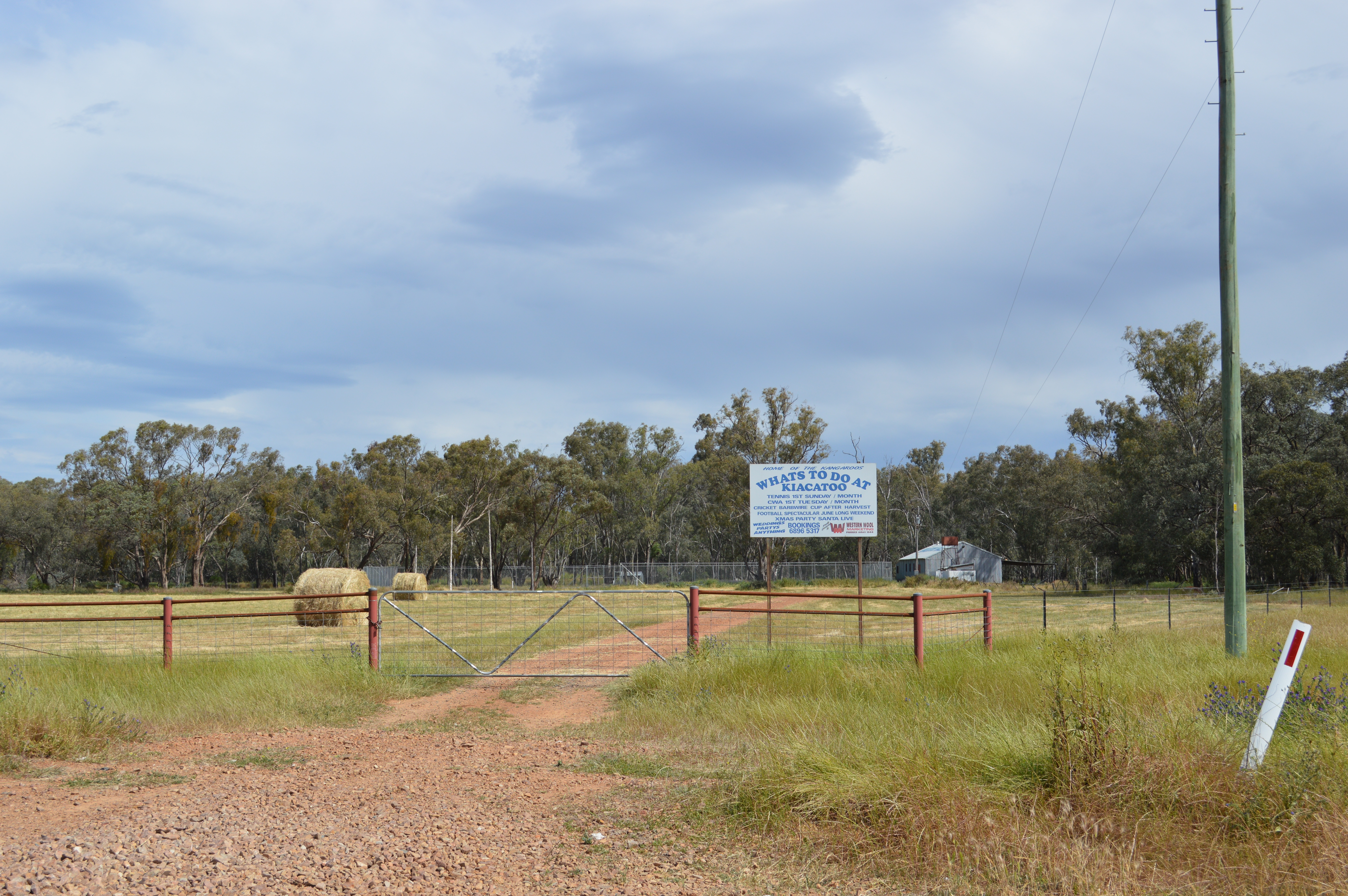 Entry into the recreation reserve at Kiacatoo, New South Wales